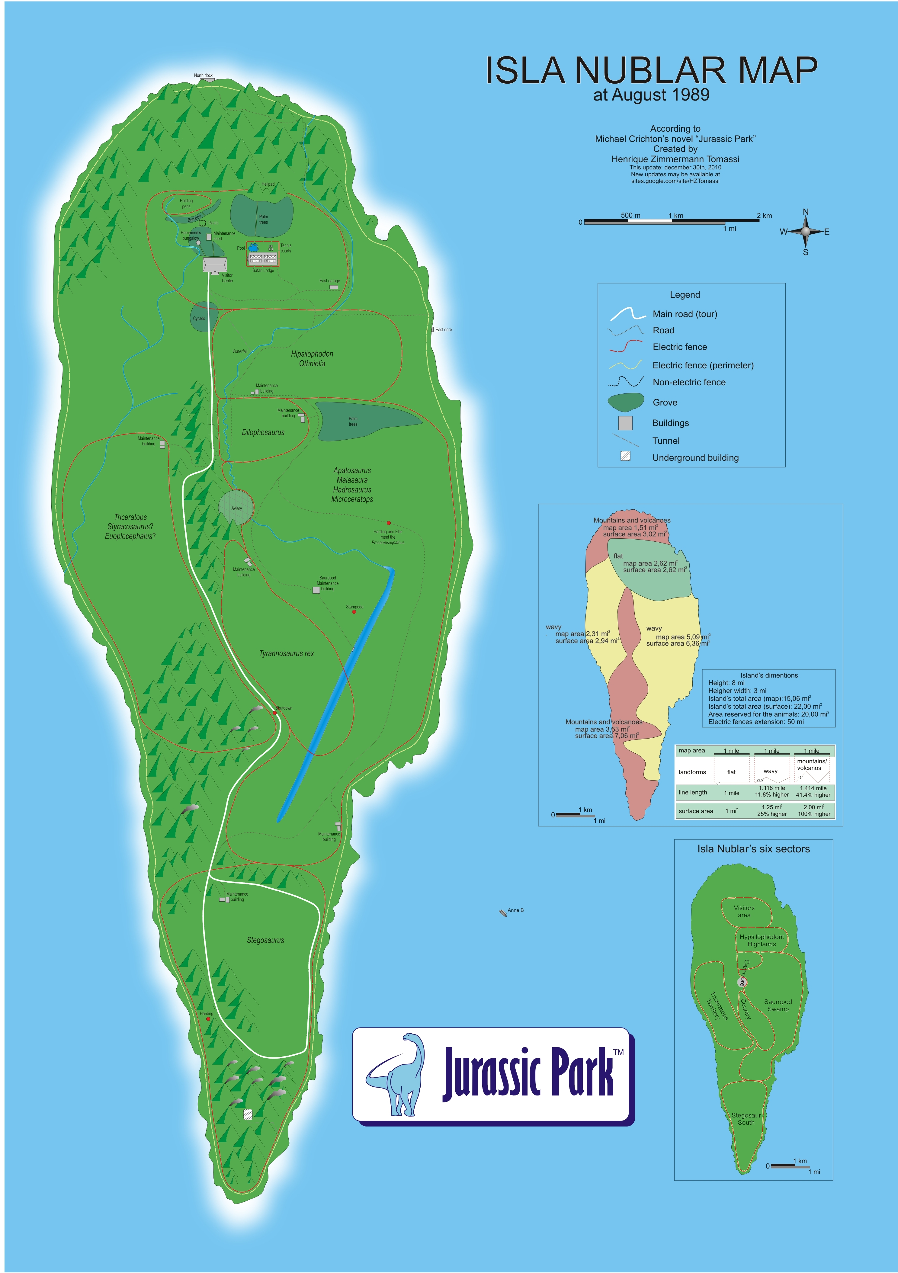 Isla Nublar map, based on Michael Crichton's novel Jurassic Park. New updates may be available at author's webpage